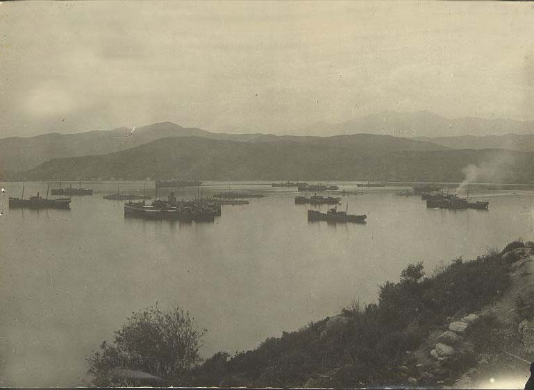 A convoy of transport ships with the First Greek infantry Division on board departs from Eleftera, Eastern Macedonia to Smyrna, May 1919Türkçe: Birinci Yunan Piyade Tümeni'ni taşıyan nakliye gemileri konvoyu, Eleftera, Doğu Makedonya'dan İzmir'e hareket ediyor, Mayıs 1919